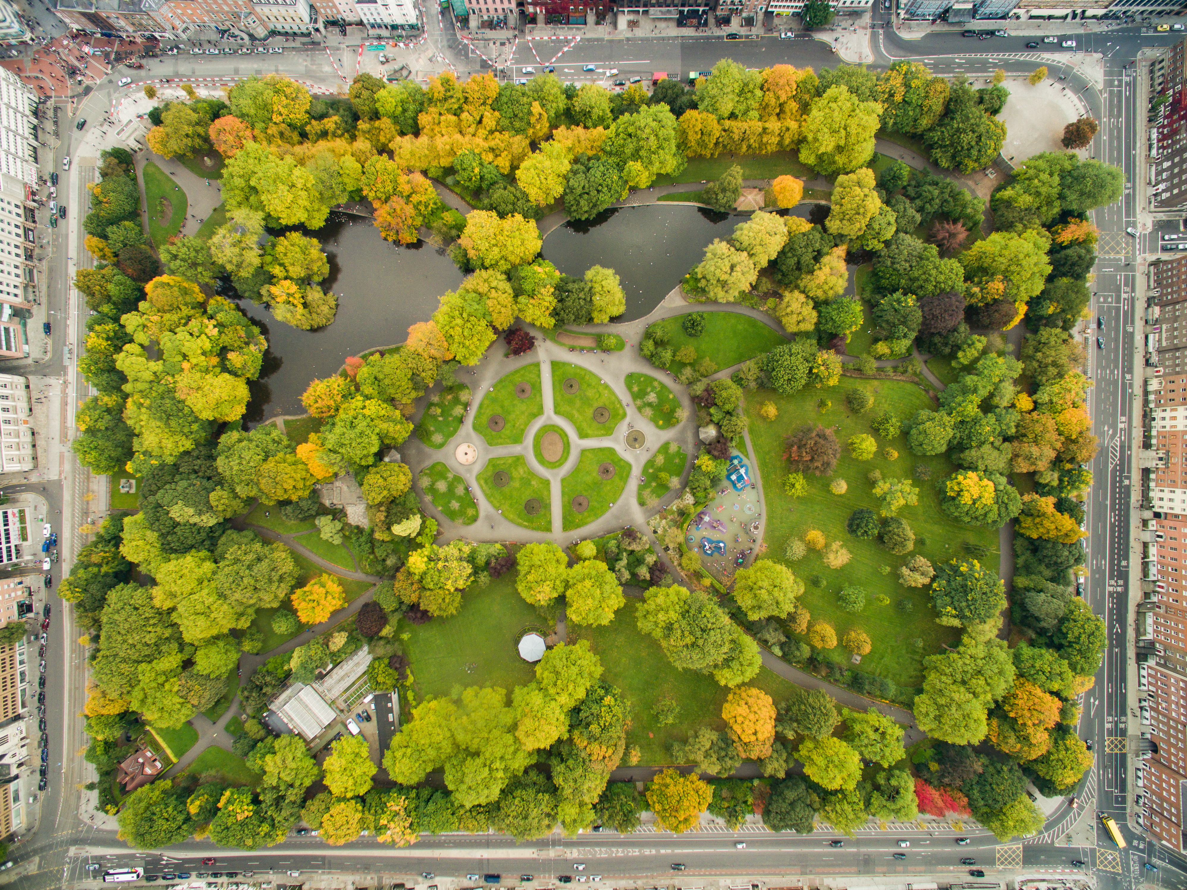 An aerial view of St Stephen's Green in the centre of Dublin, during Indian summer